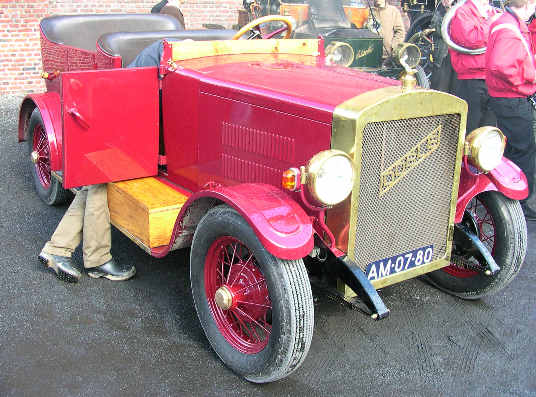 5th steam festival in Bochum, Germany 2007. Doble steam car